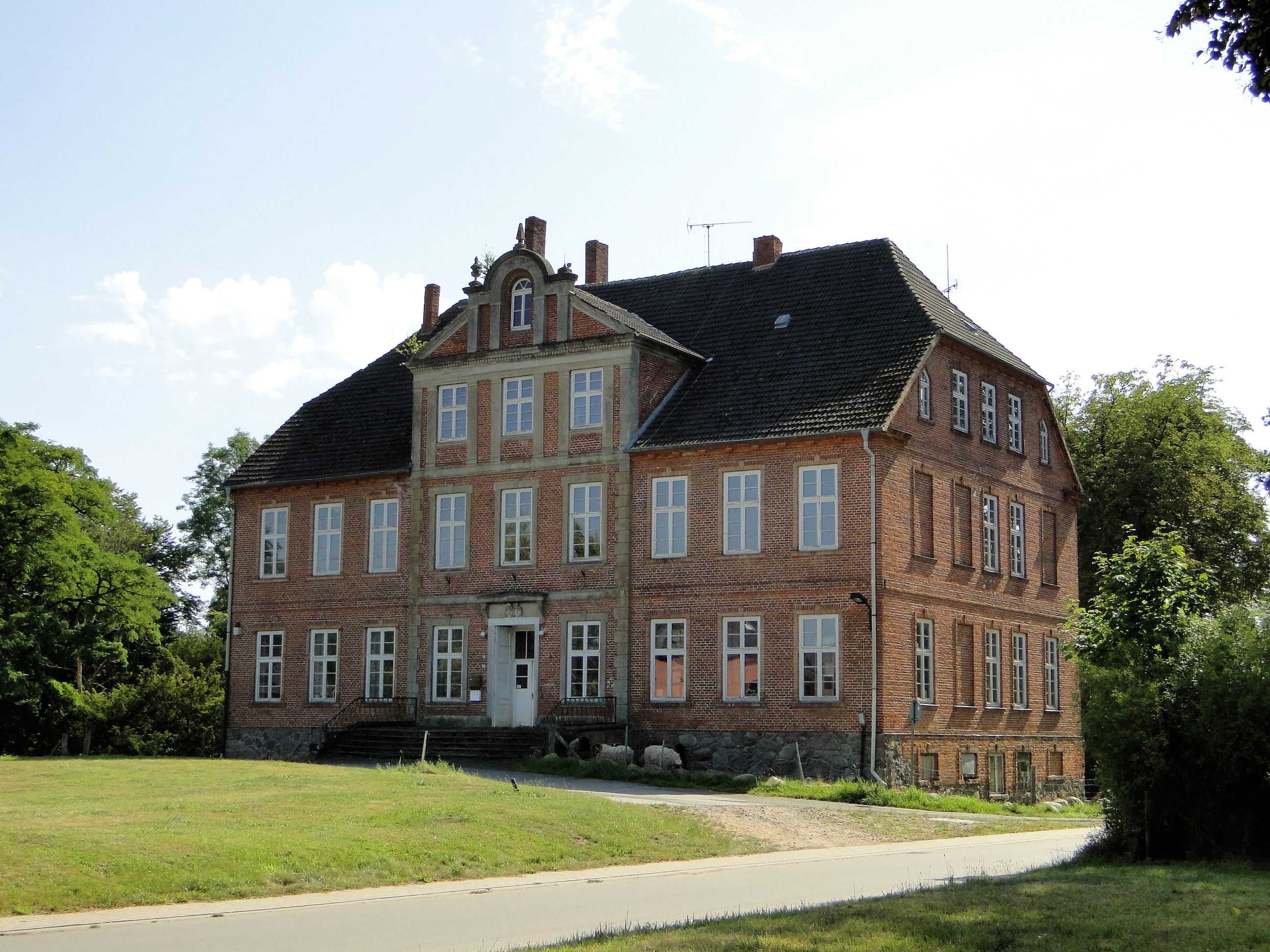 Manor house in Reez, district Rostock, Mecklenburg-Vorpommern, Germany